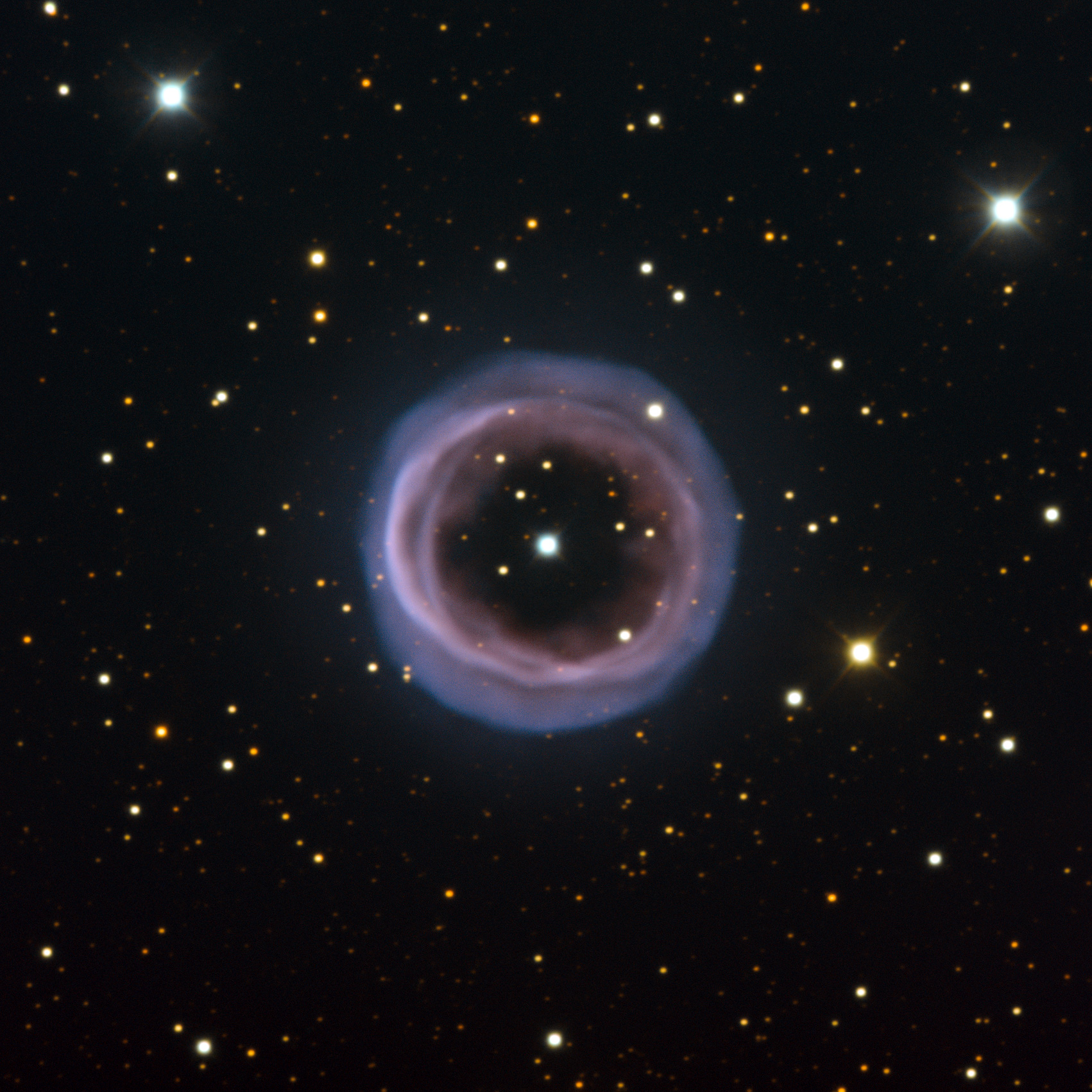 The hazy and aptly named Fine Ring Nebula, shown here, is an unusual planetary nebula. Planetary nebulae form when some dying stars, having expanded into a red giant phase, expel a shell of gas as they evolve into white dwarfs. Most planetary nebulae are either spherical or elliptical in shape, or bipolar (featuring two symmetric lobes of material). But the Fine Ring Nebula — captured here by the ESO Faint Object Spectrograph and Camera mounted on the New Technology Telescope at the La Silla Observatory in Chile — looks like an almost perfect circular ring. Astronomers believe that some of these more unusually shaped planetary nebulae are formed when the progenitor star is actually a binary system. The interaction between the primary star and its orbiting companion shapes the ejected material. The stellar object at the centre of the Fine Ring Nebula is indeed thought to be a binary system, orbiting with a period of 2.9 days. Observations suggest that the binary pair is almost perfectly face-on from our vantage point, implying that the planetary nebula’s structure is aligned in the same way. We are looking down on a torus (doughnut shape) of ejected material, leading to the strikingly circular ring shape in the image. Planetary nebulae are shaped by the complex interplay of many physical processes. Not only can these celestial objects be admired for their beauty, but the study of precisely how they form their striking shapes is a fascinating topic in astronomical research. This image was made using multiple filters: light observed through B and O-III filters is shown in blue, V is shown in green, R is shown in orange, and H-alpha in red. The image is approximately 200 arcseconds across.